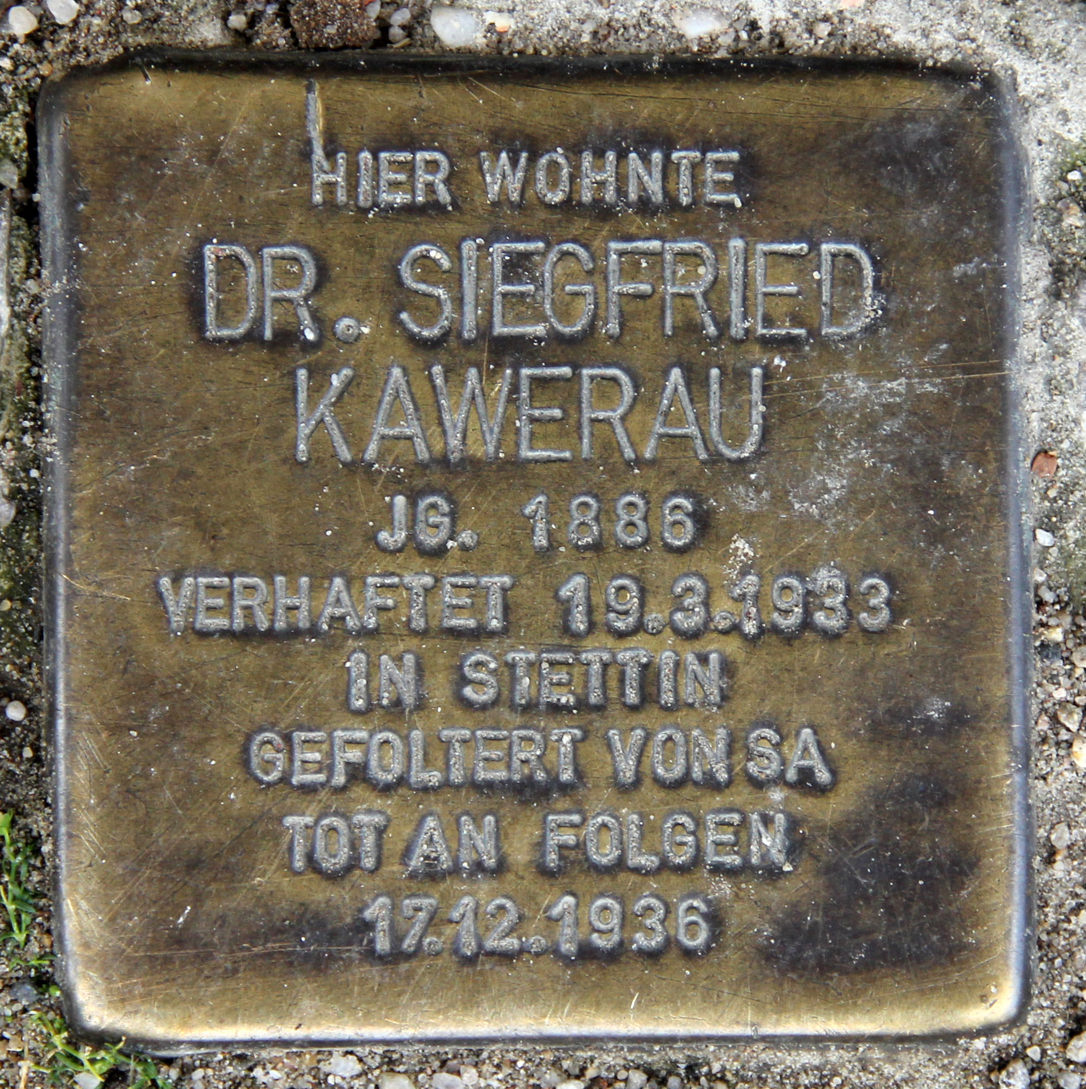 "Stolperstein" (stumbling block), Siegfried Kawerau, Bonhoefferufer 18, Berlin-Charlottenburg, Germany